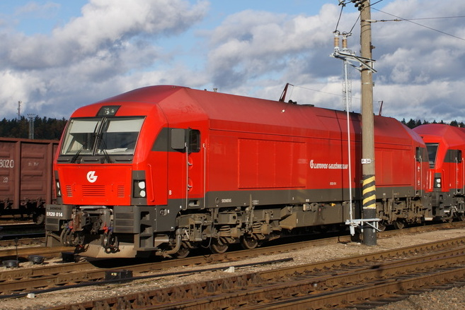 Lithuanian Railways (LG) Siemens ER20 locomotive at Paneriai yard.